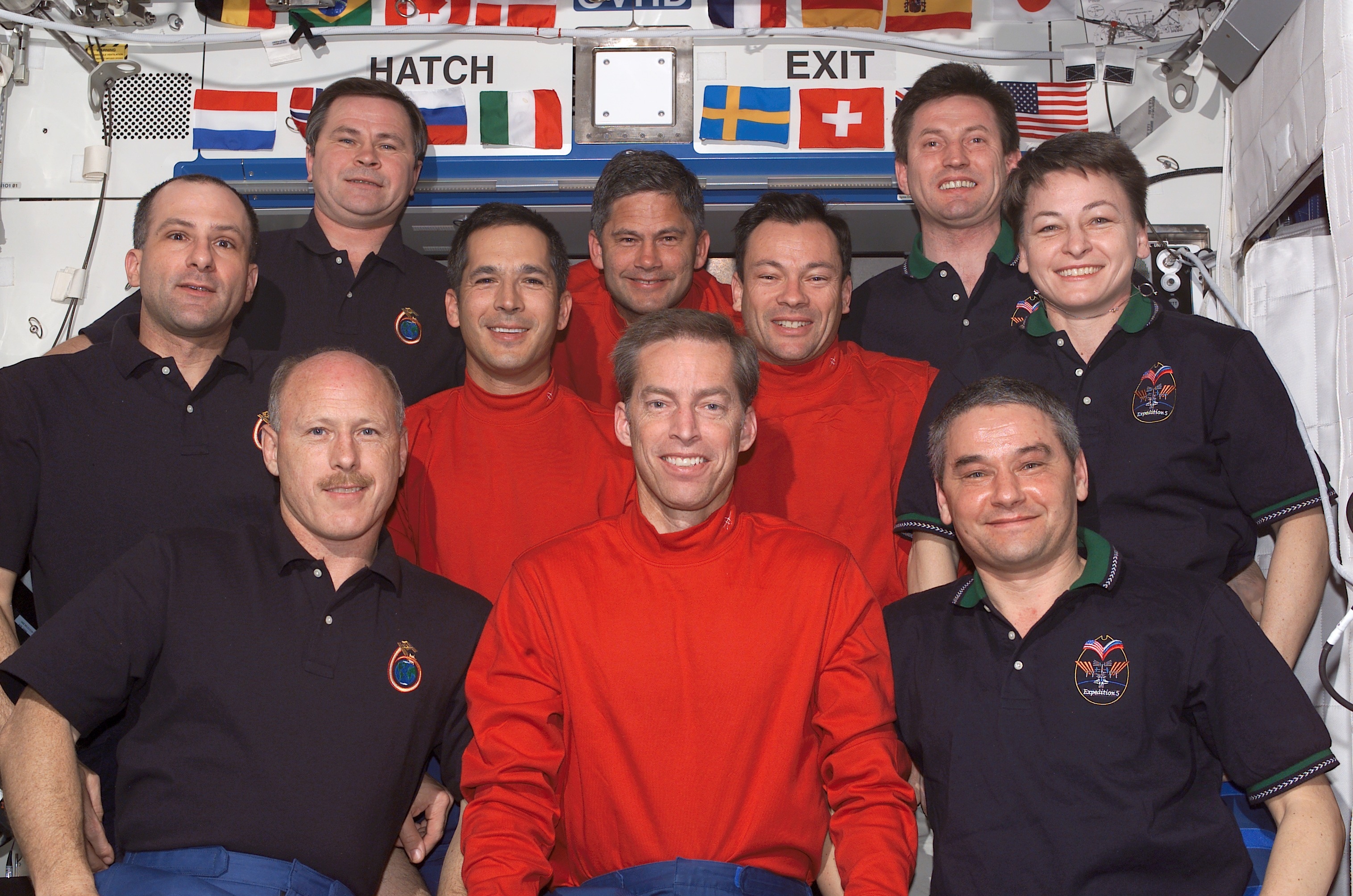 The STS-113 (red shirts), Expedition Five (right) and Expedition Six crewmembers (left) gathered for a group photo in the Destiny laboratory on the International Space Station (ISS). The STS-113 crew, front to back, are astronauts James D. Wetherbee, mission commander; John B. Herrington (left), Michael E. Lopez-Alegria, mission specialists; and Paul S. Lockhart, pilot. The Expedition Six crew, front to back, are astronauts Kenneth D. Bowersox, mission commander; Donald R. Pettit, NASA ISS science officer; and cosmonaut Nikolai M. Budarin, flight engineer. The Expedition Five crew, front to back, are cosmonaut Valery G. Korzun, mission commander; astronaut Peggy A. Whitson, NASA ISS science officer; and cosmonaut Sergei Y. Treschev, flight engineer. Korzun, Treschev and Budarin represent Rosaviakosmos.